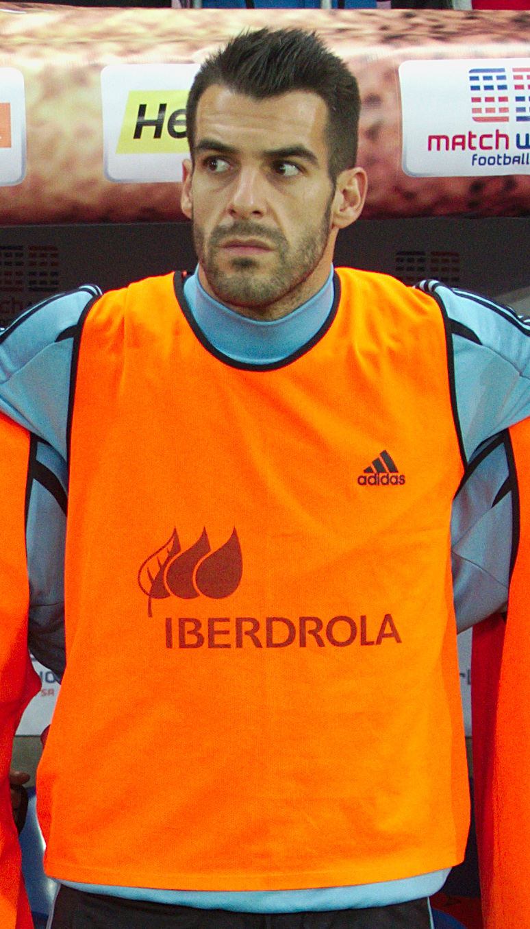 Álvaro Negredo Spain - Chile - 10-09-2013